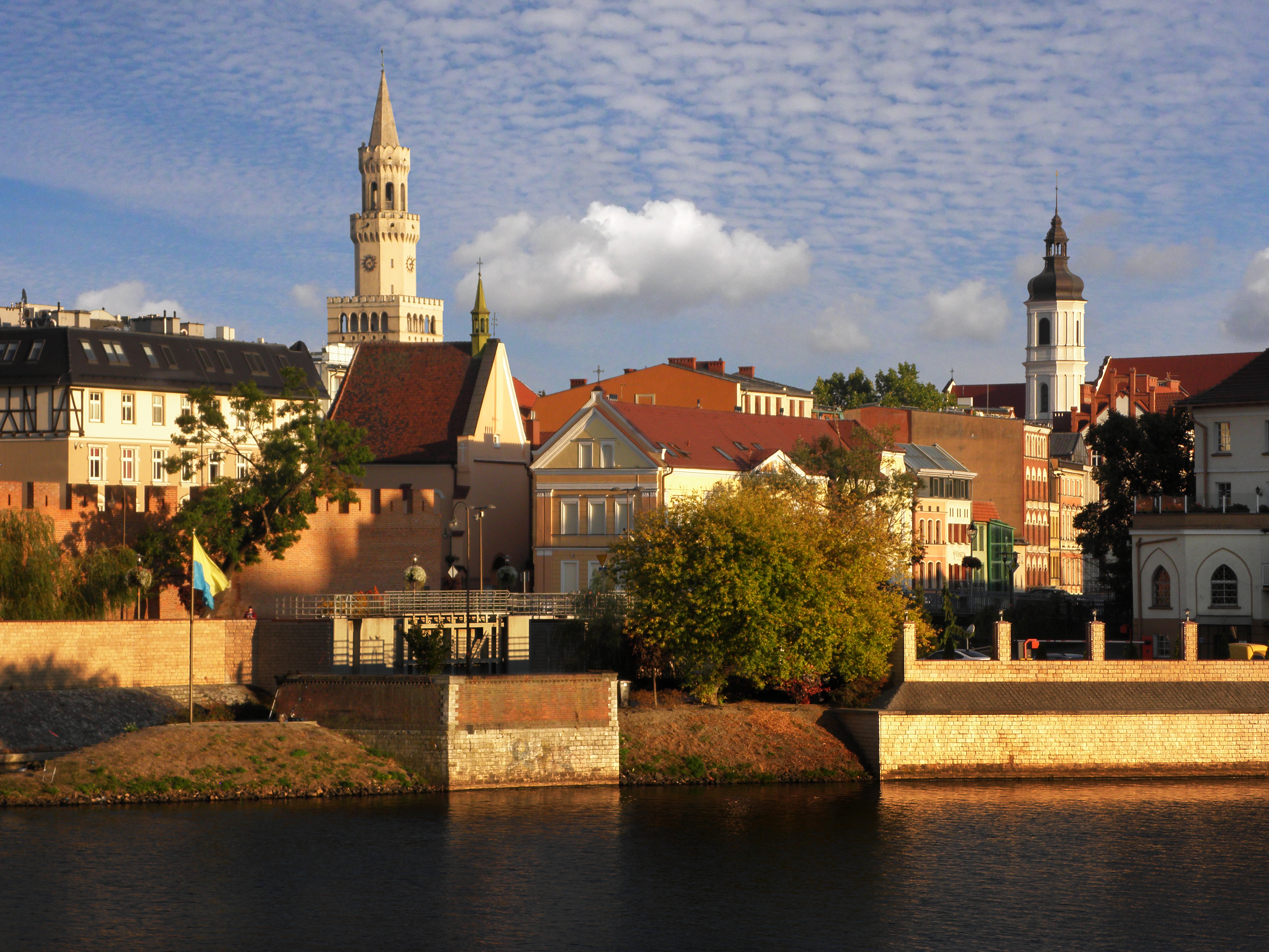 Opole, Poland - Old Town view